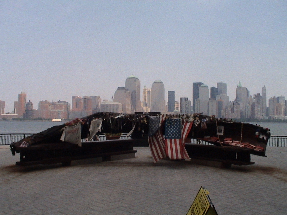 files from my last capturing adventure from Mississippi and New York, Kew Gardens and else. From this position the twin towers could be seen. Photo taken in July 2007. The memorial can be seen at the foreground